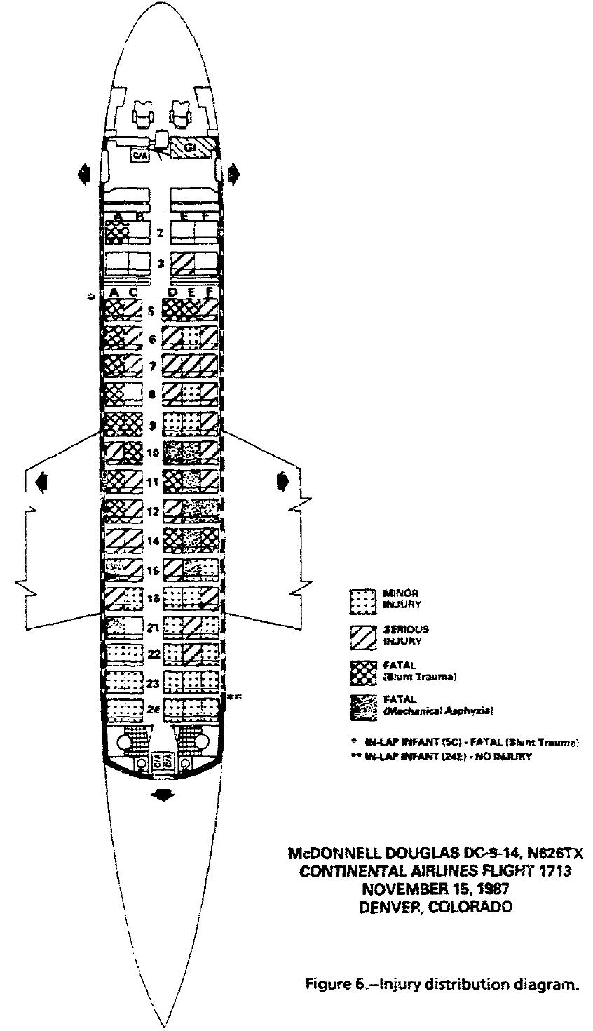 From NTSB report AAR88-09 of Continental Airlines Flight 1713, Page 28 of 99